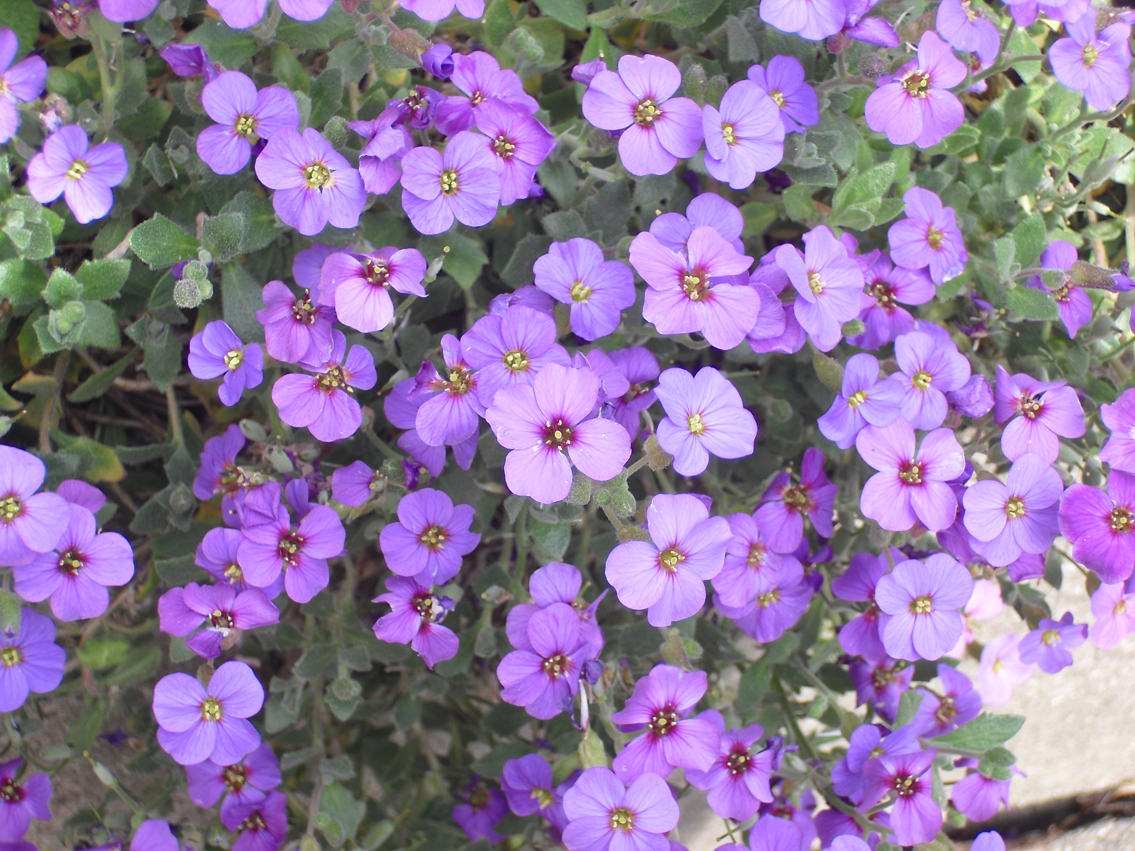 Common Aubrieta, Wallcress